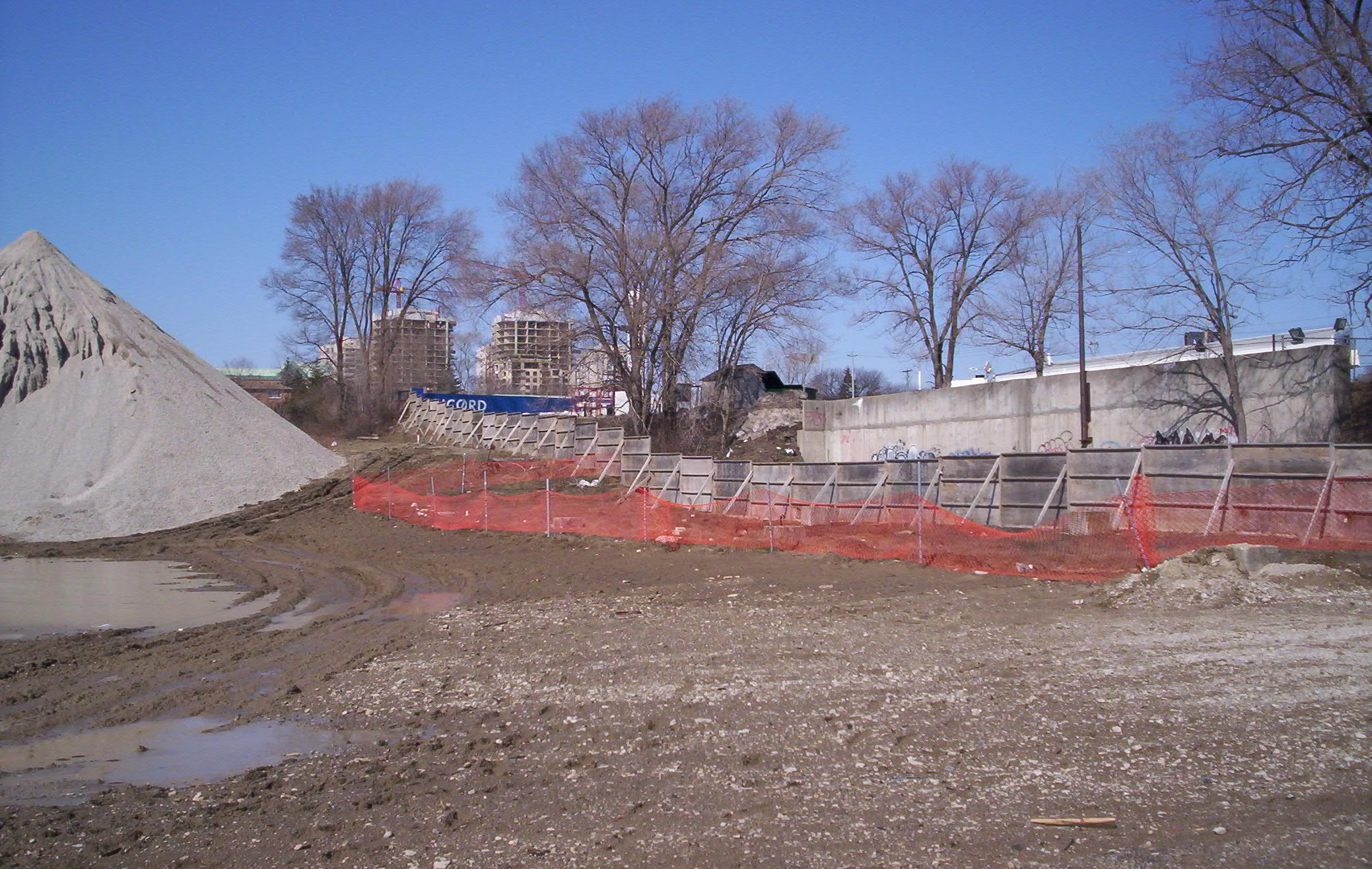 Concord development site, southwest of the Leslie Street and Sheppard Avenue intersection, Toronto, Canada.